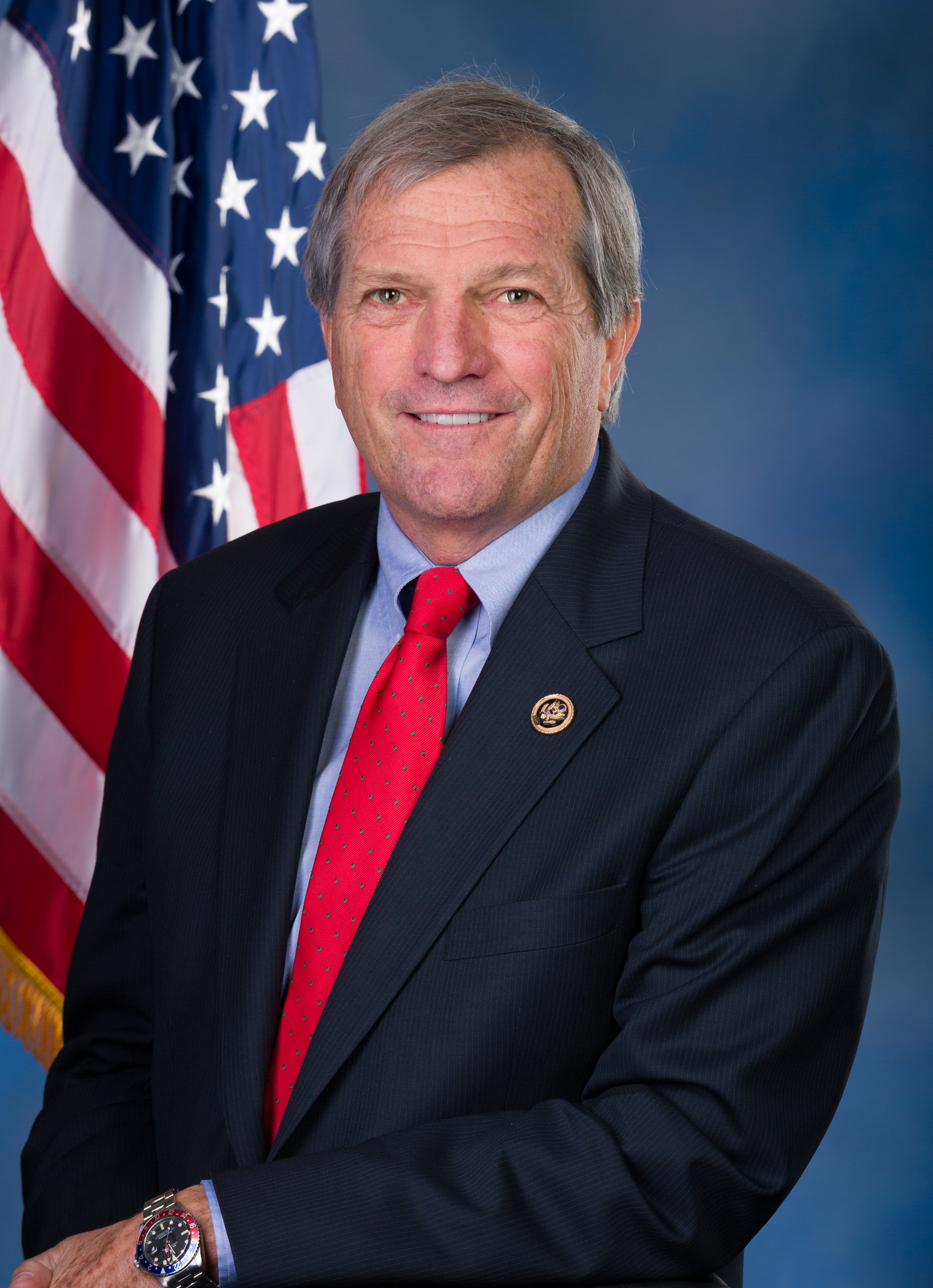 Official congressional photo of Rep Mark DeSaulnier